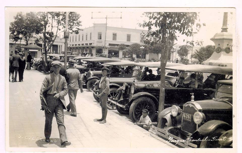 Italians in Guatemala City's Central Park. The companies "Empresa Electrica" and "Comercio Portal" are visible.